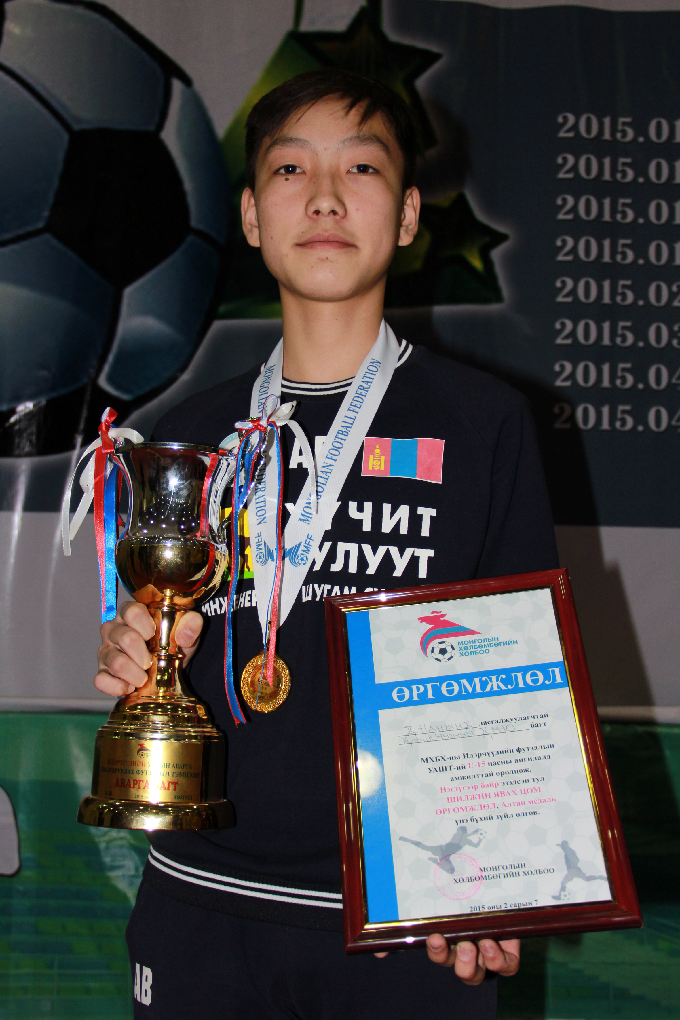 2015.02.07 Mongolian Futsal Championship U-15 (113)